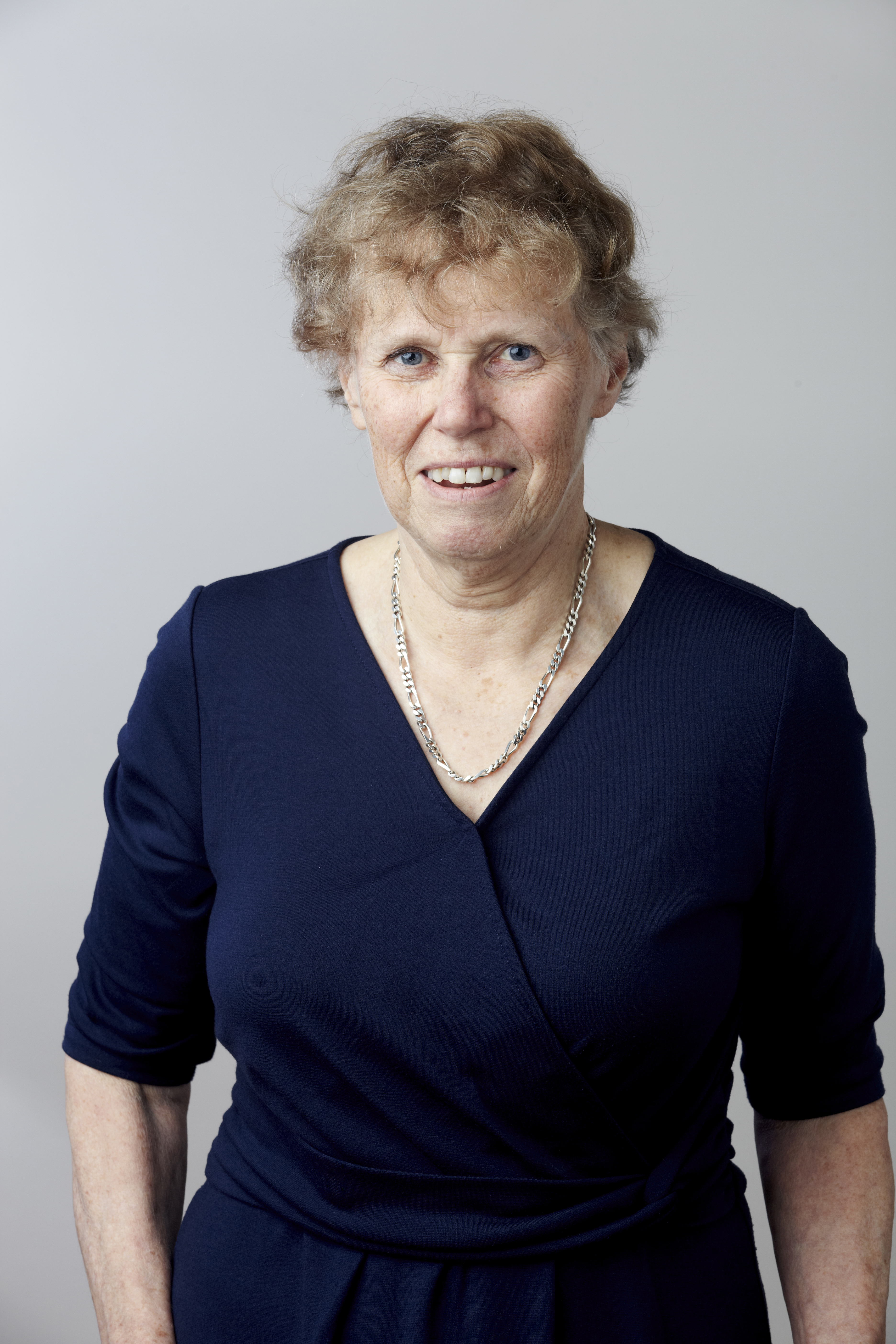 Professor Marian Dawkins CBE FRS, Royal Society Fellow elected 2014 Attribution: The Royal Society